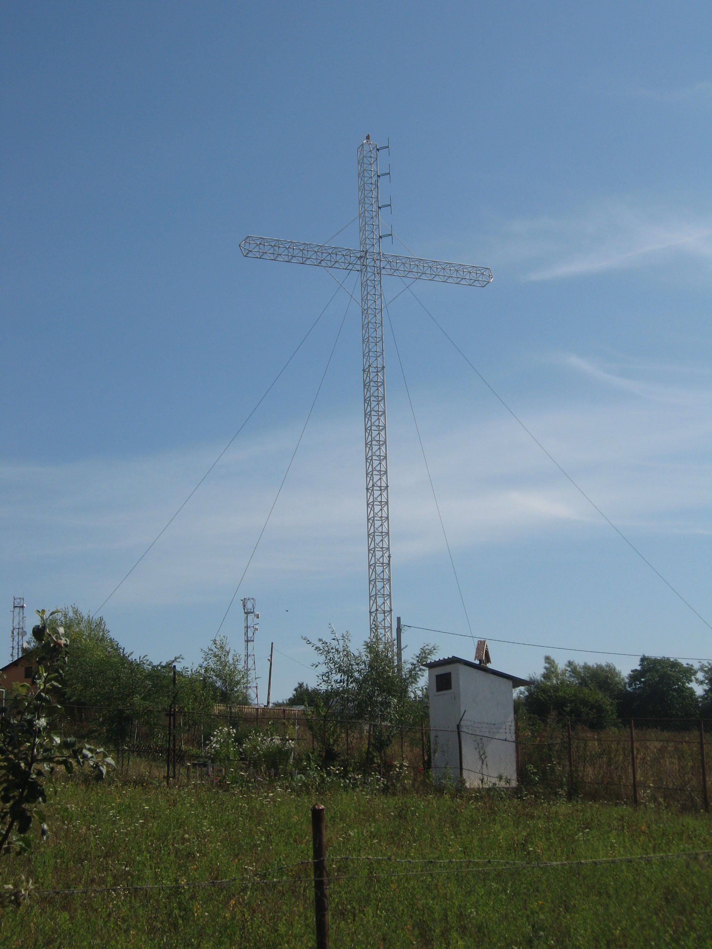 Manastirea Galata